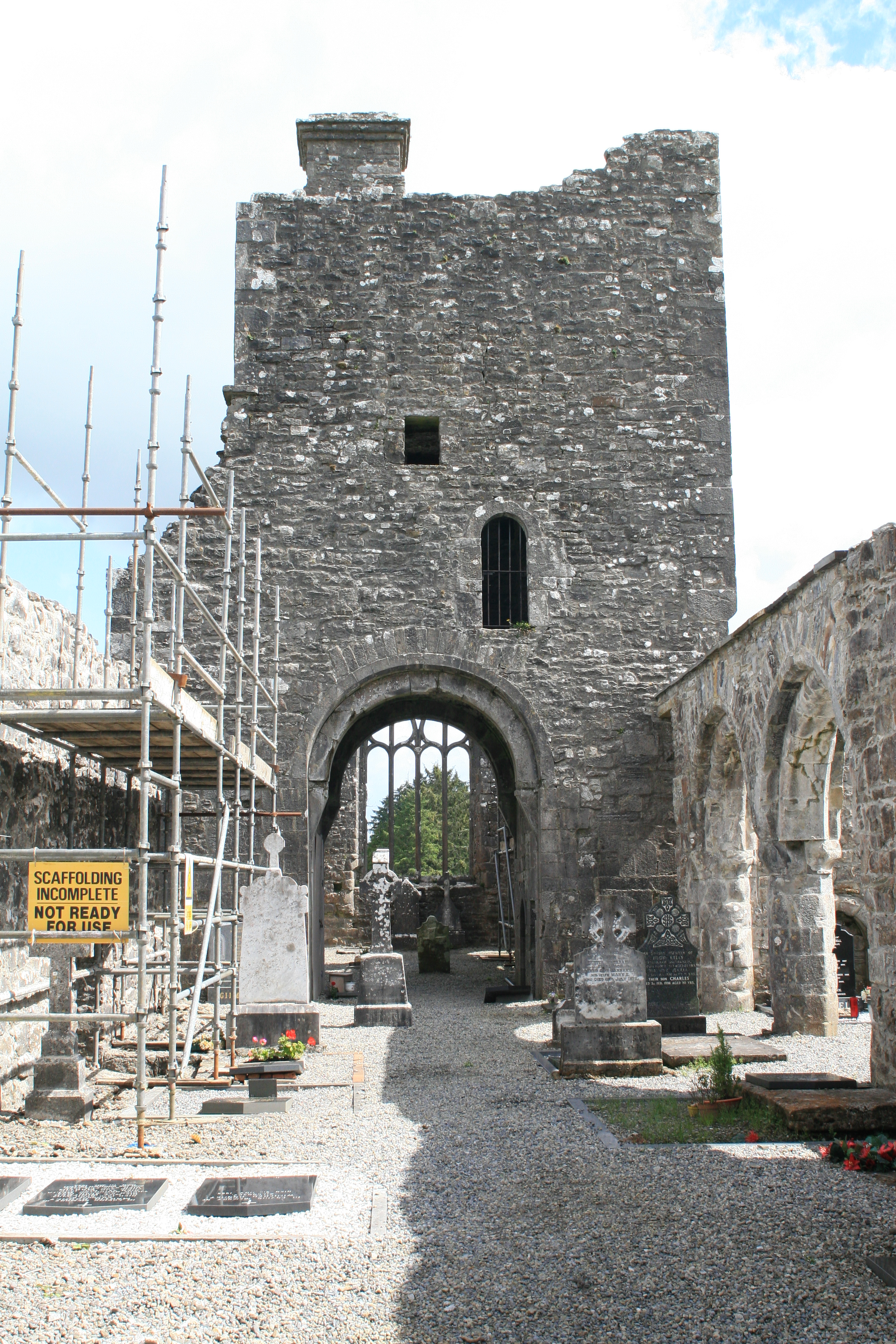 Dromahair, County Leitrim, Ireland View of the nave and the tower at Creevelea Friary, looking east.